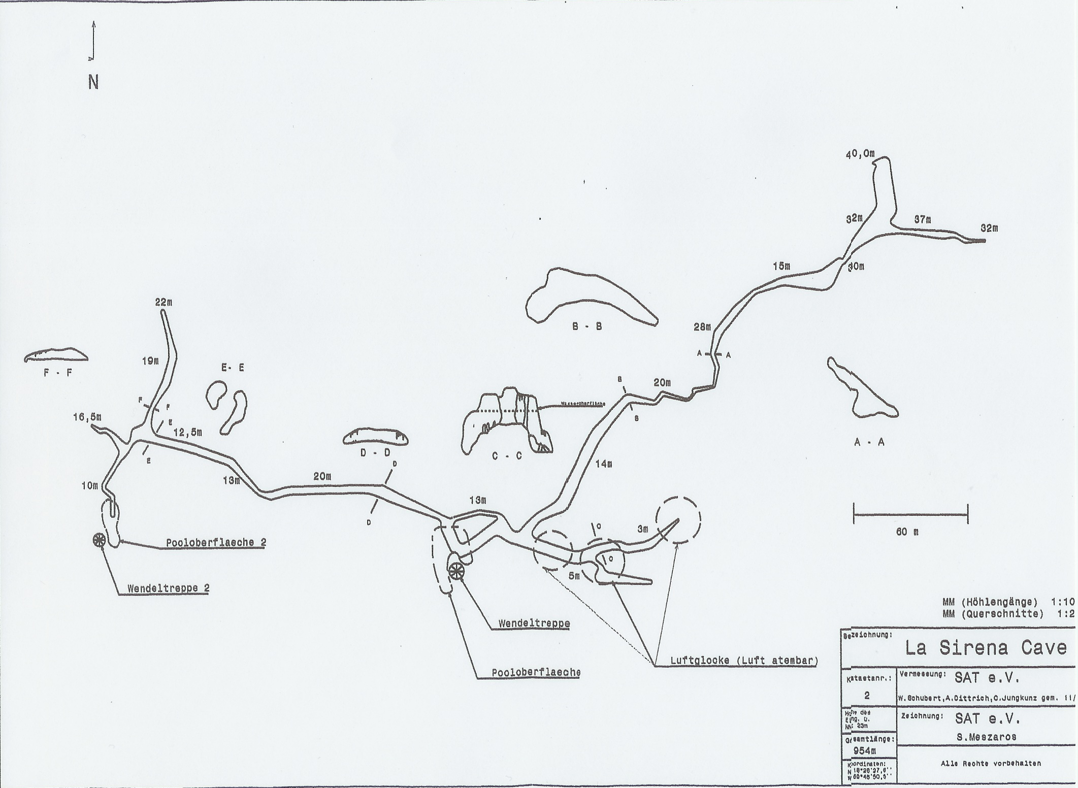 La Sirena Cave